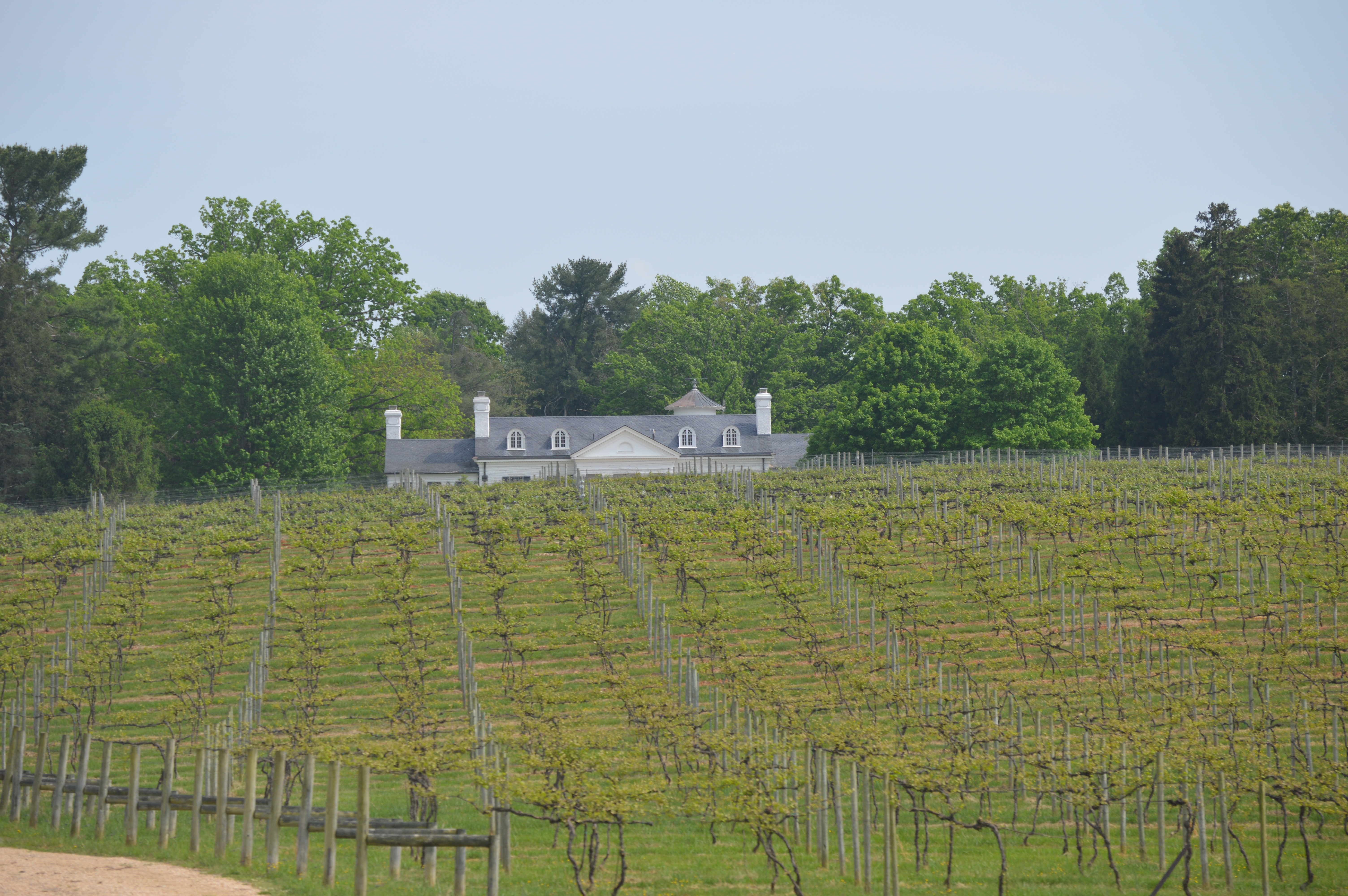 Open land at Keswick Vineyards, located on State Route 231 northwest of Cobham in Albemarle County, Virginia, United States. Built in 1911, it is part of the Southwest Mountains Rural Historic District, a historic district that is listed on the National Register of Historic Places.